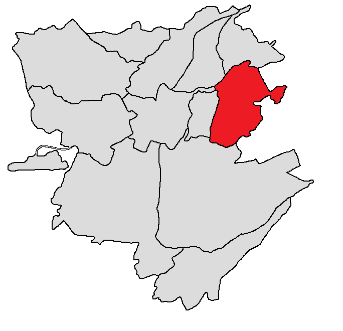 Location of Nor Nork district of Yerevan